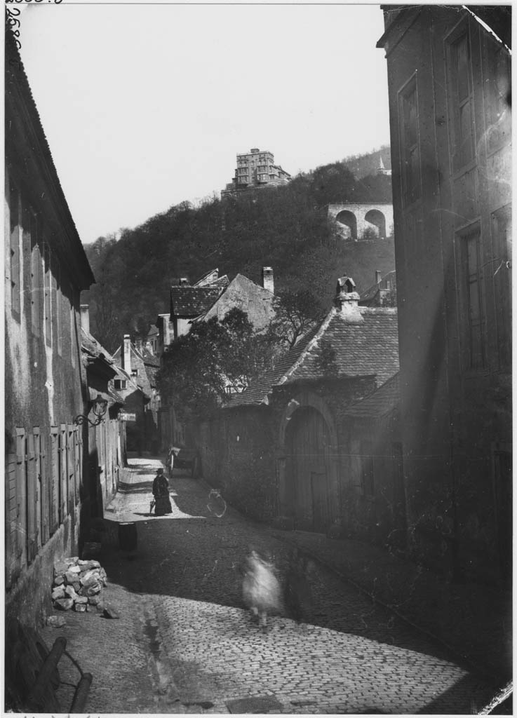 Calla Curman, wife of Carl Curman, in a street in Heidelberg.